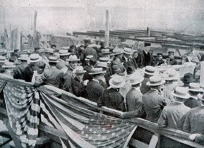 Photo of the ceremony for the laying of the cornerstone for the East Midwood Jewish Center, June 13, 1926.